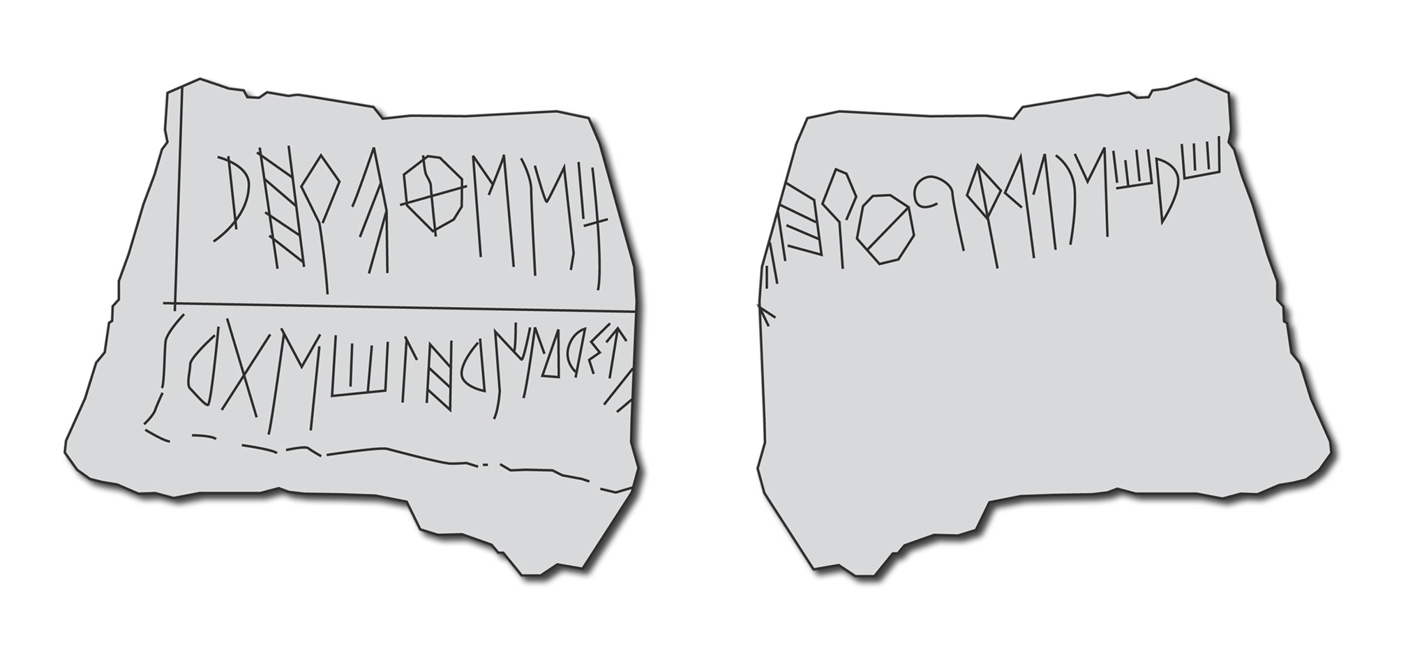 Drawing of a lead panel with an inscription found in the iberian village on the Penya del Moro in Sant Just Desvern (Catalonia).